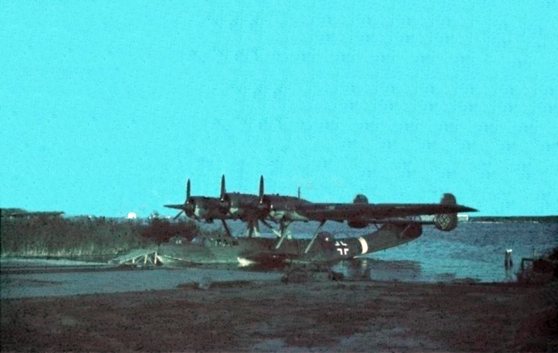 A German Dornier Do 24N at Romania in 1941.